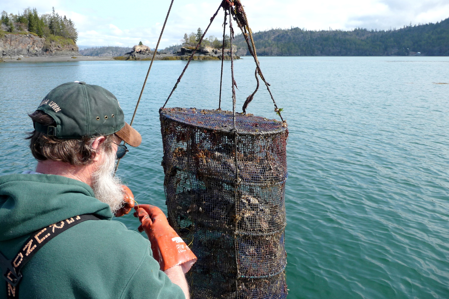 "Looks like he's sewing it back up before taking it back to the farm." Bear Cove, across Kachemak Bay from Homer, Alaska